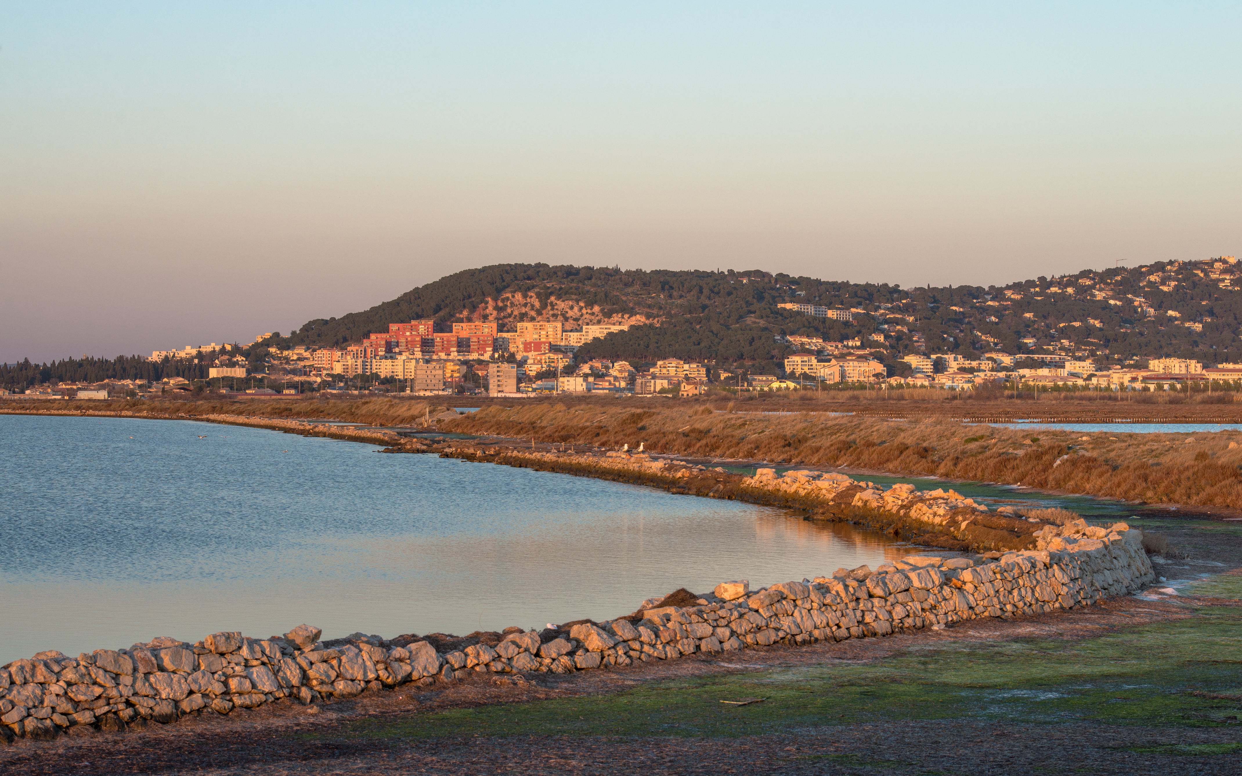 A part of Sète and of the Mount Saint-Clair seen from the "Lido de Thau", an area protected by the Conservatoire du littoral. On the left there are the Étang de Thau and "cairels", these littles walls in ruins built in the middle of the XXth century to protect the former salt evaporation ponds ("salins de Villeroy", on the right) of the level changes of the pond. Sète, Hérault, France.